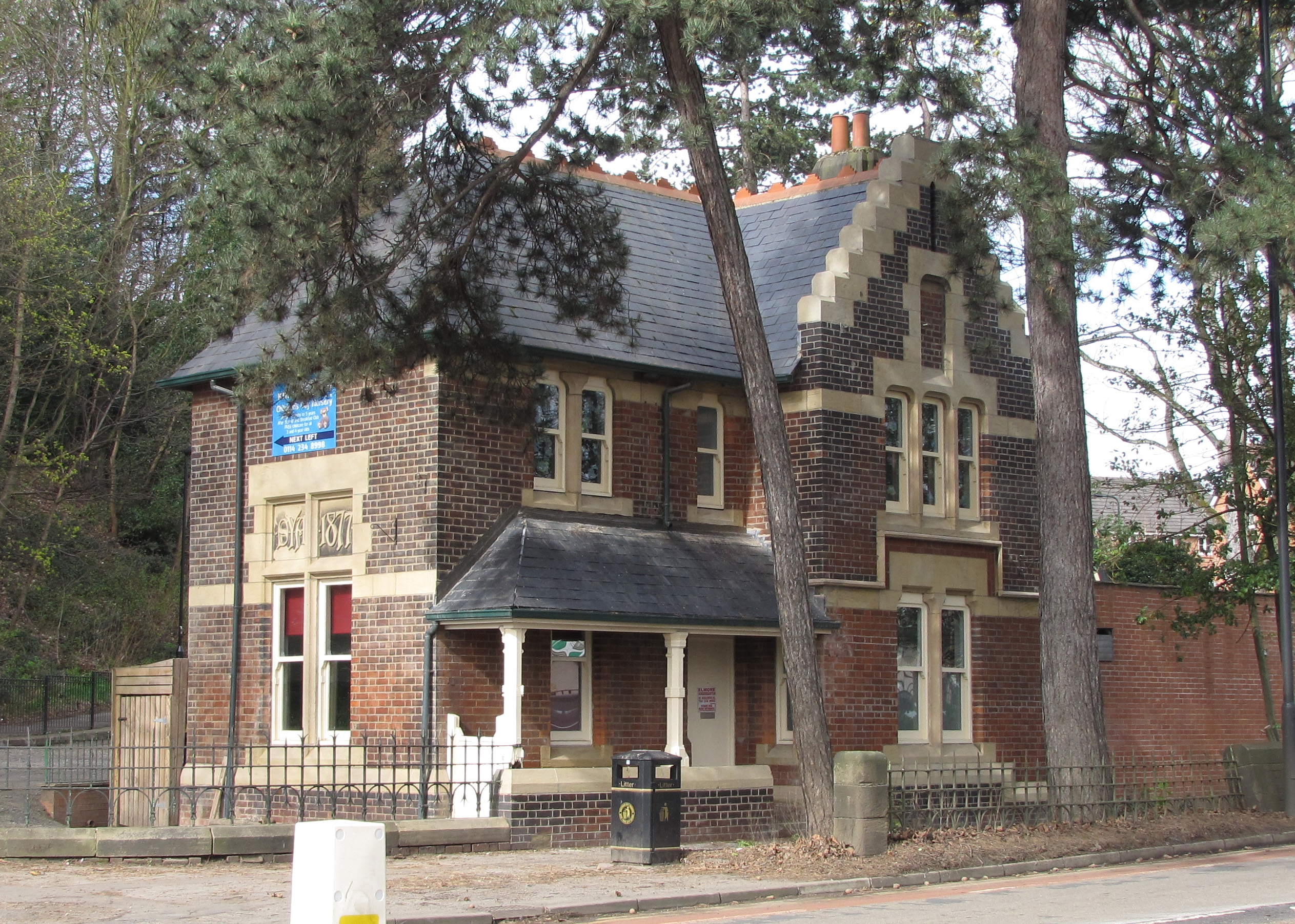 The former lodge at Middlewood Hospital, now a children's nursery.